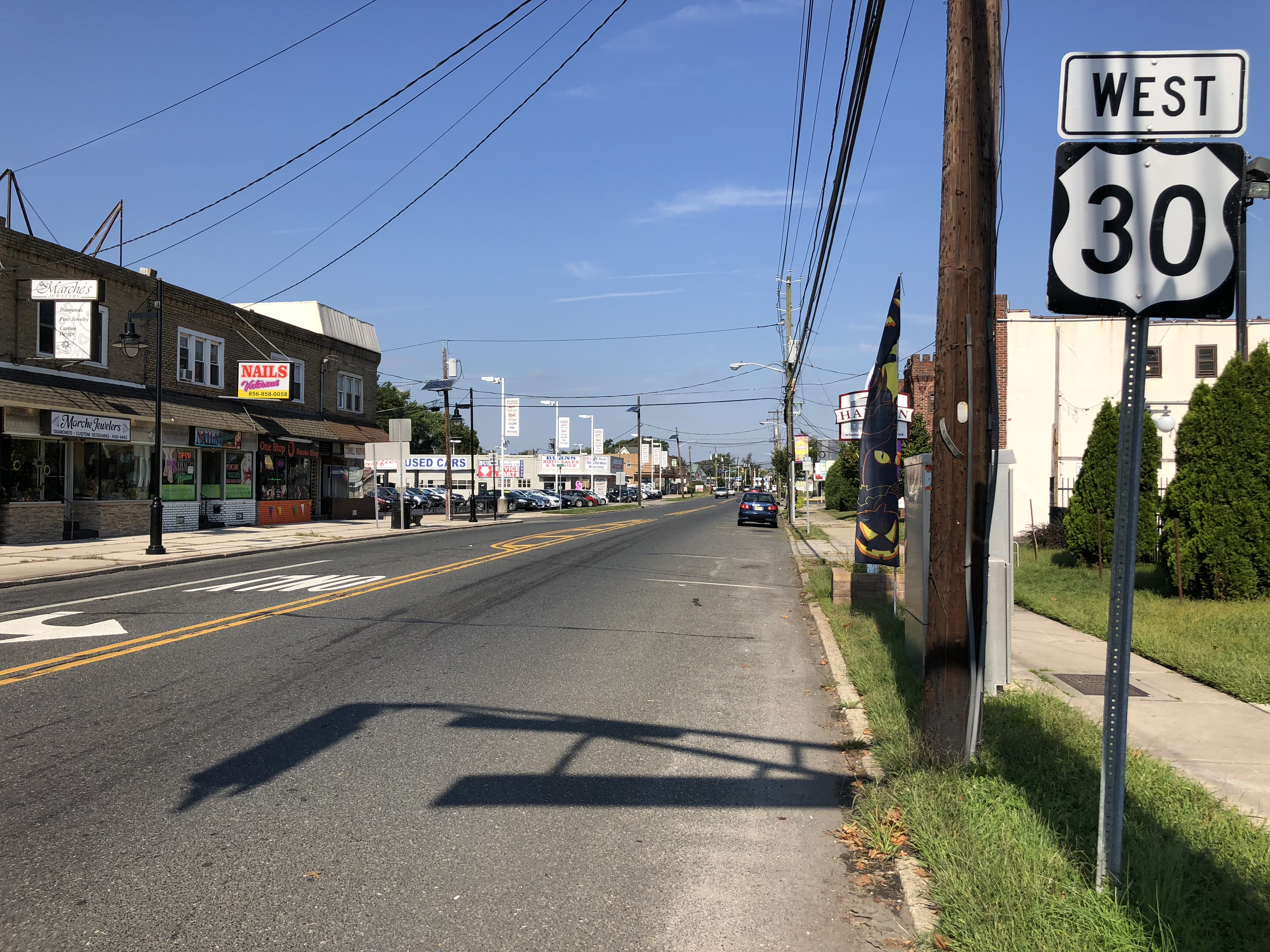 View west along U.S. Route 30 (White Horse Pike) just west of Camden County Route 636 (Cuthbert Road) along the border of Haddon Township and Oaklyn in Camden County, New Jersey